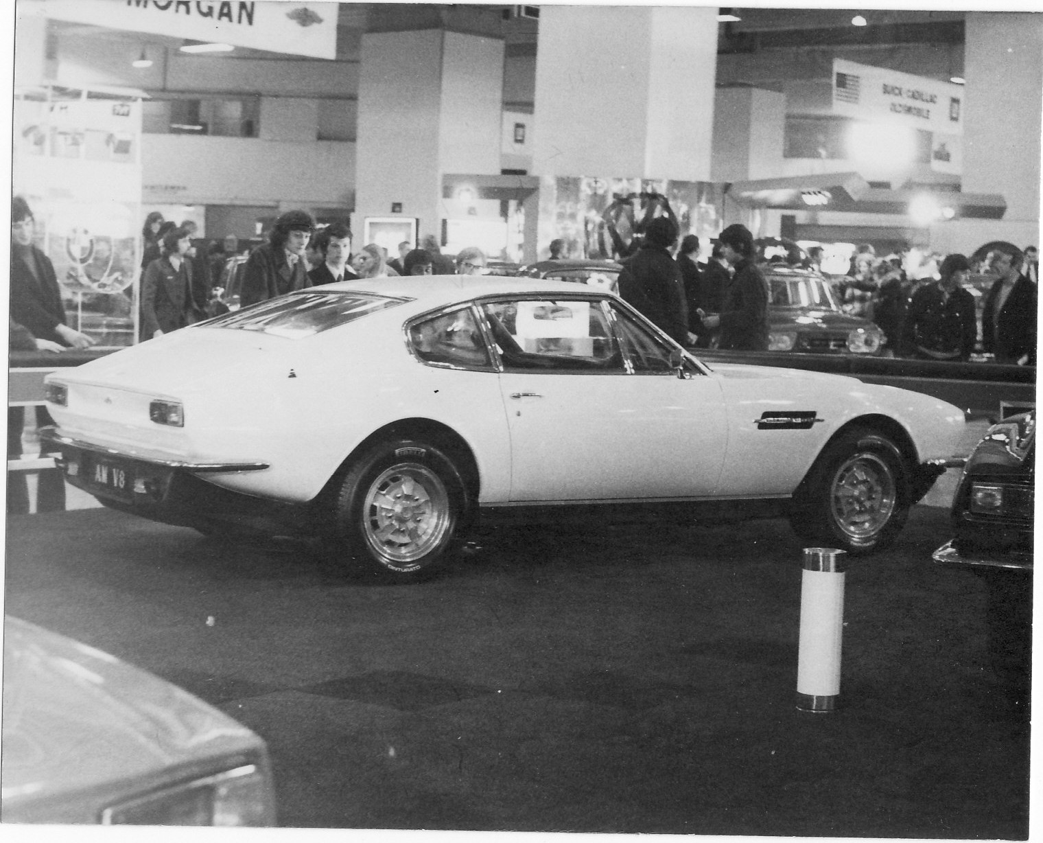 Earls Court Motor Show, London, 1972